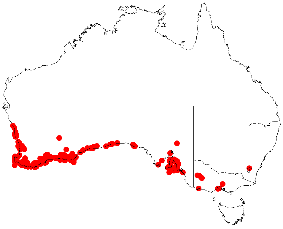 Acacia cyclops occurrence data from Australasian Virtual Herbarium downloaded from on December 8 2018